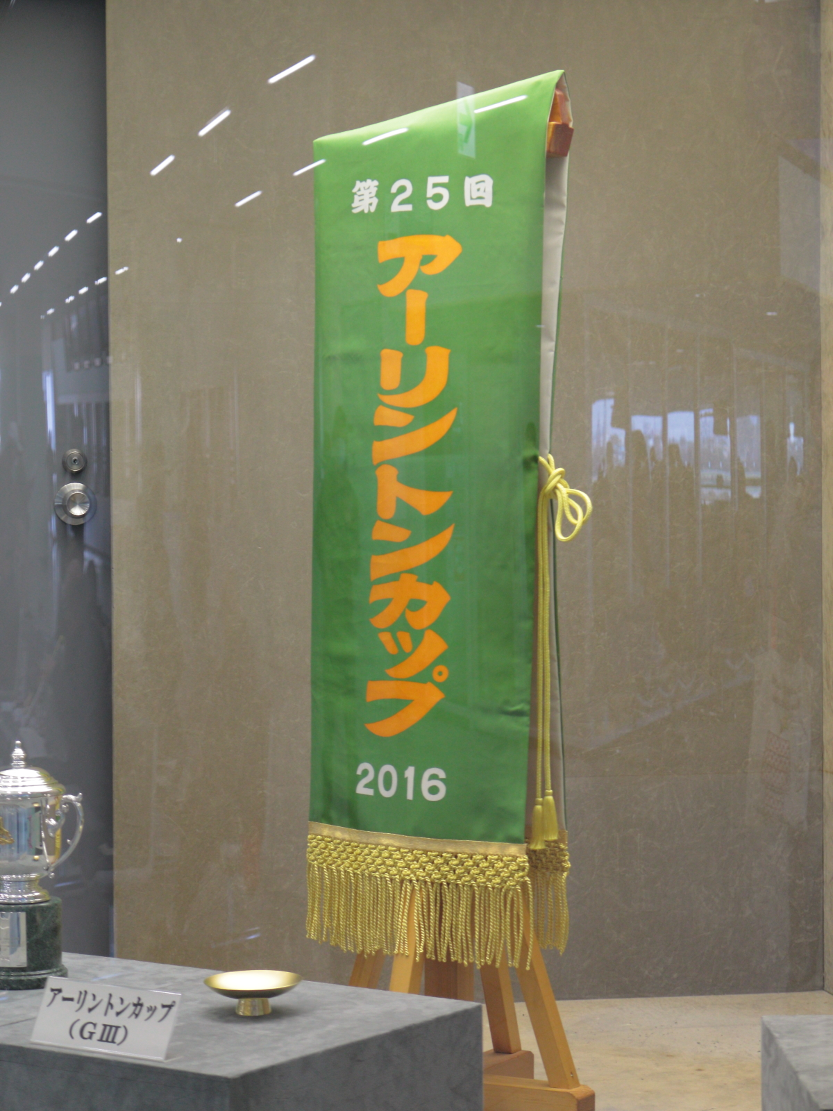 Win prizes from Arlington Cup (Hanshin racecourse).